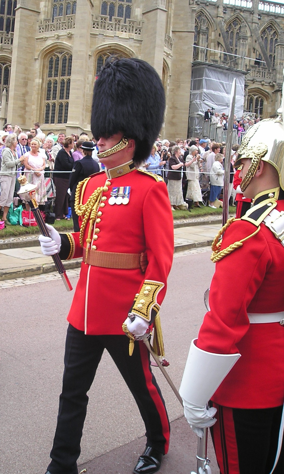 Colonel Jonathan Bourne-May, Regimental Lieutenant-Colonel of the Coldstream Guards, attending the Queen as Field Officer in Brigade Waiting in the procession to St George's Chapel, Windsor Castle for the annual service of the Order of the Garter. To the right is one of the dismounted members of the Life Guards who were lining the route of the procession.